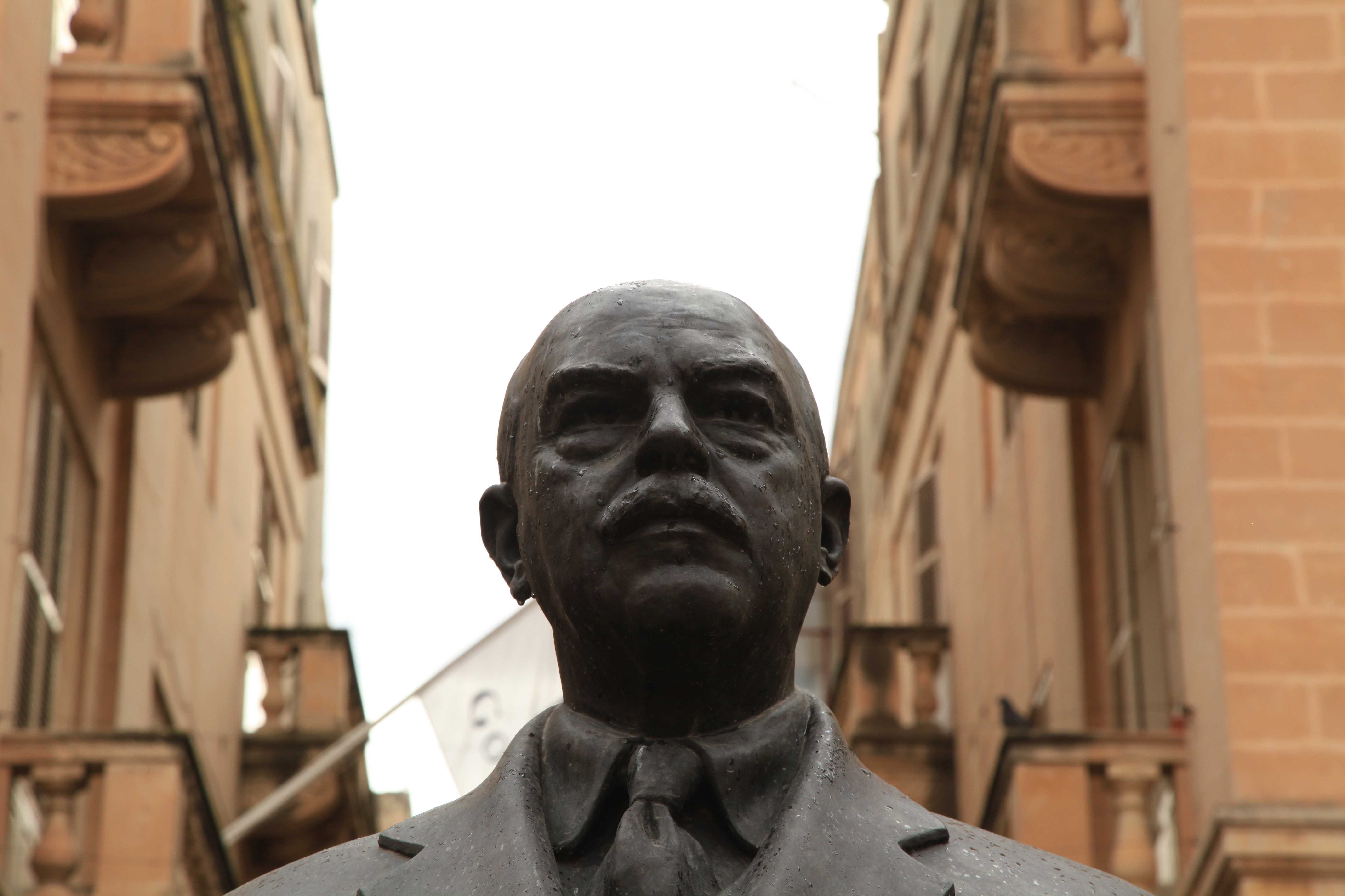 Monument to Enrico Mizzi, Misraħ San Ġwann in Valletta, Malta